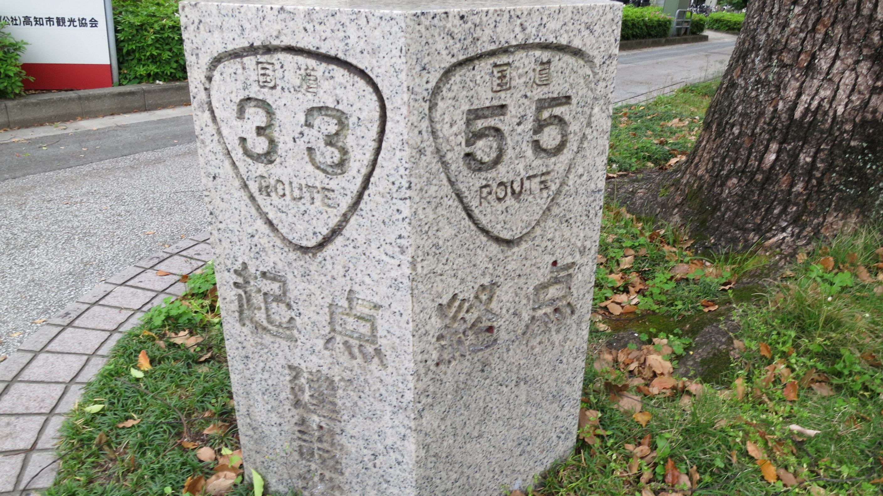 高知市 道路元標